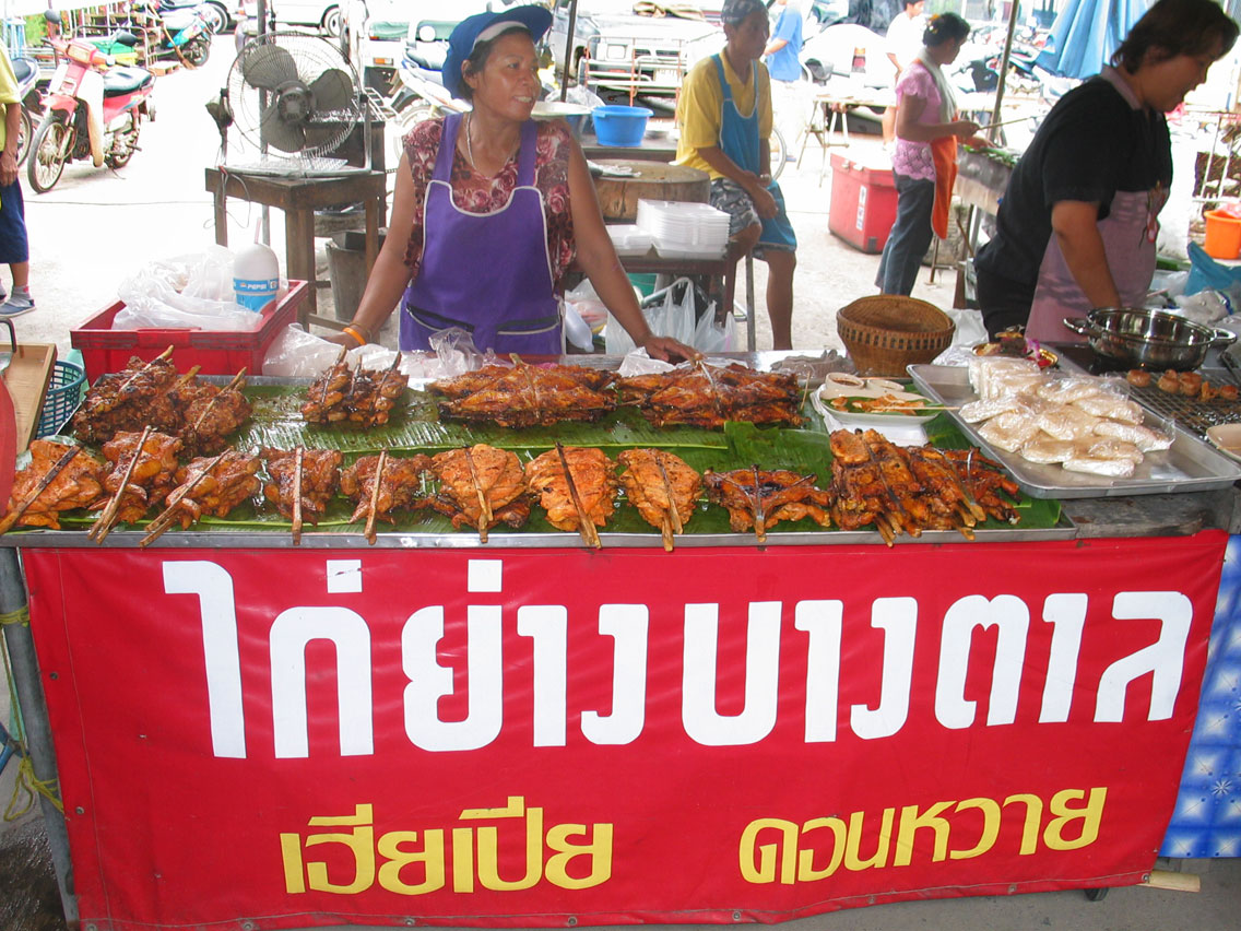 Gai Yang - barbecued chicken Thai style. Don Wai Market, Nakhon Pathom province, Thailand.